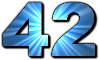 42, The Answer to the Ultimate Question of Life according to The Hitchhiker's Guide to the Galaxy.